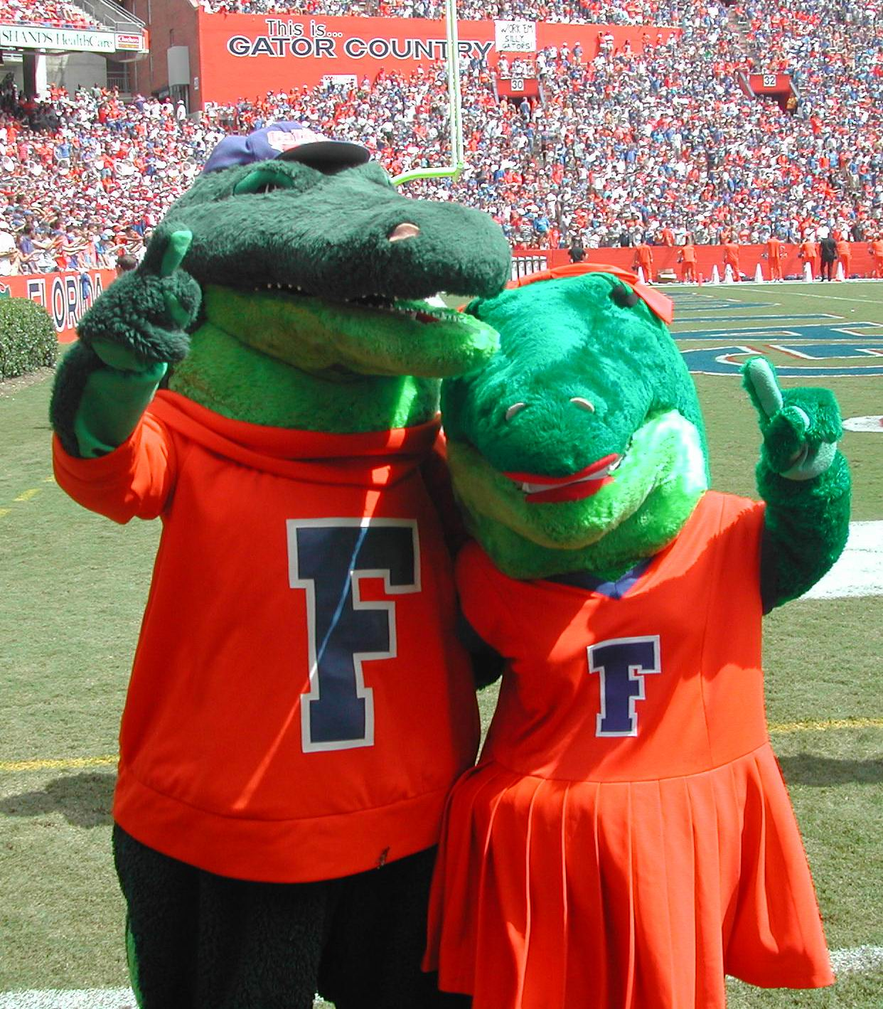 Albert and Alberta in the Swamp (Florida Field). Image captured by Tampa Gator September 2004.